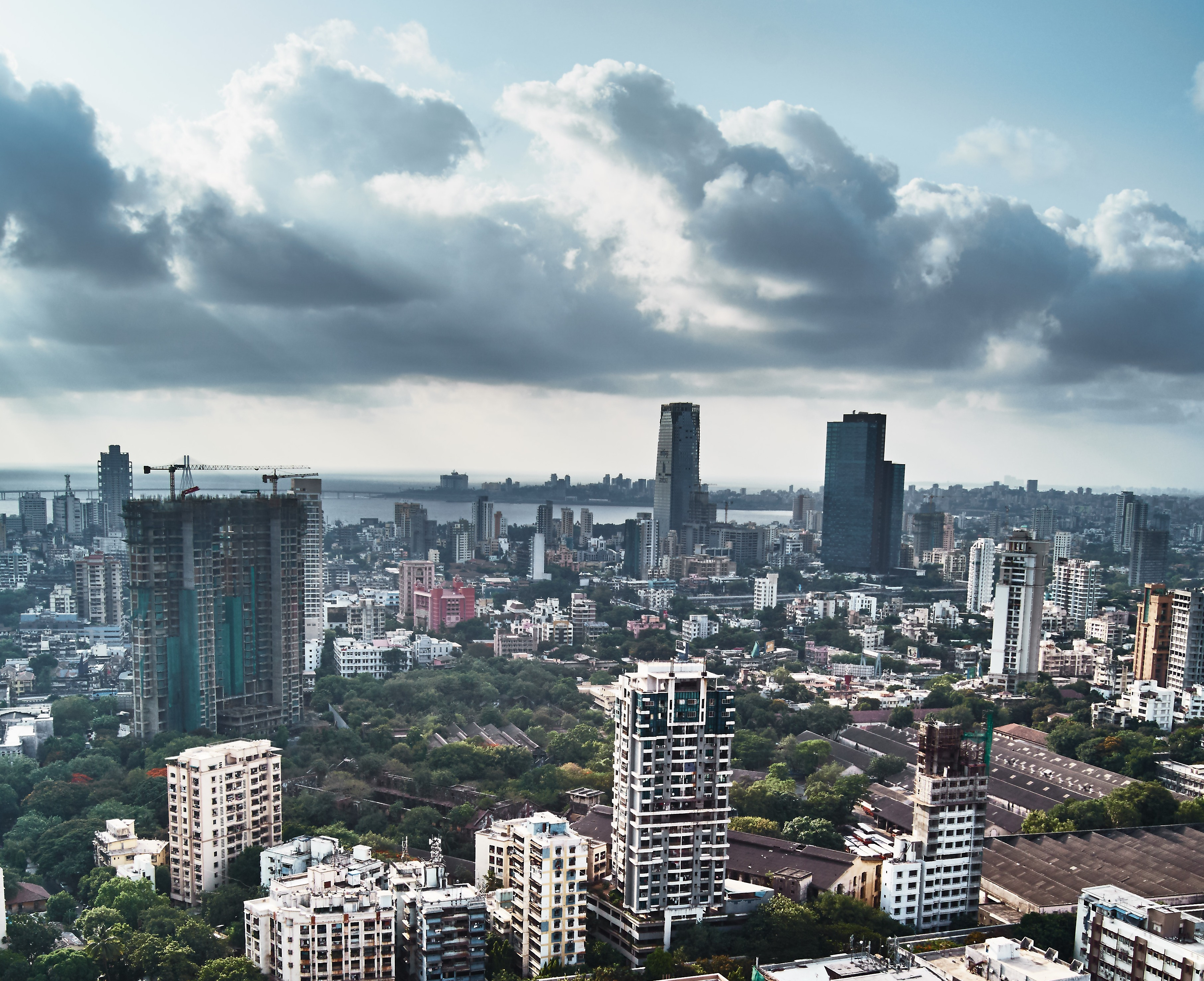 South Mumbai, from the vantage point of the 34th floor.